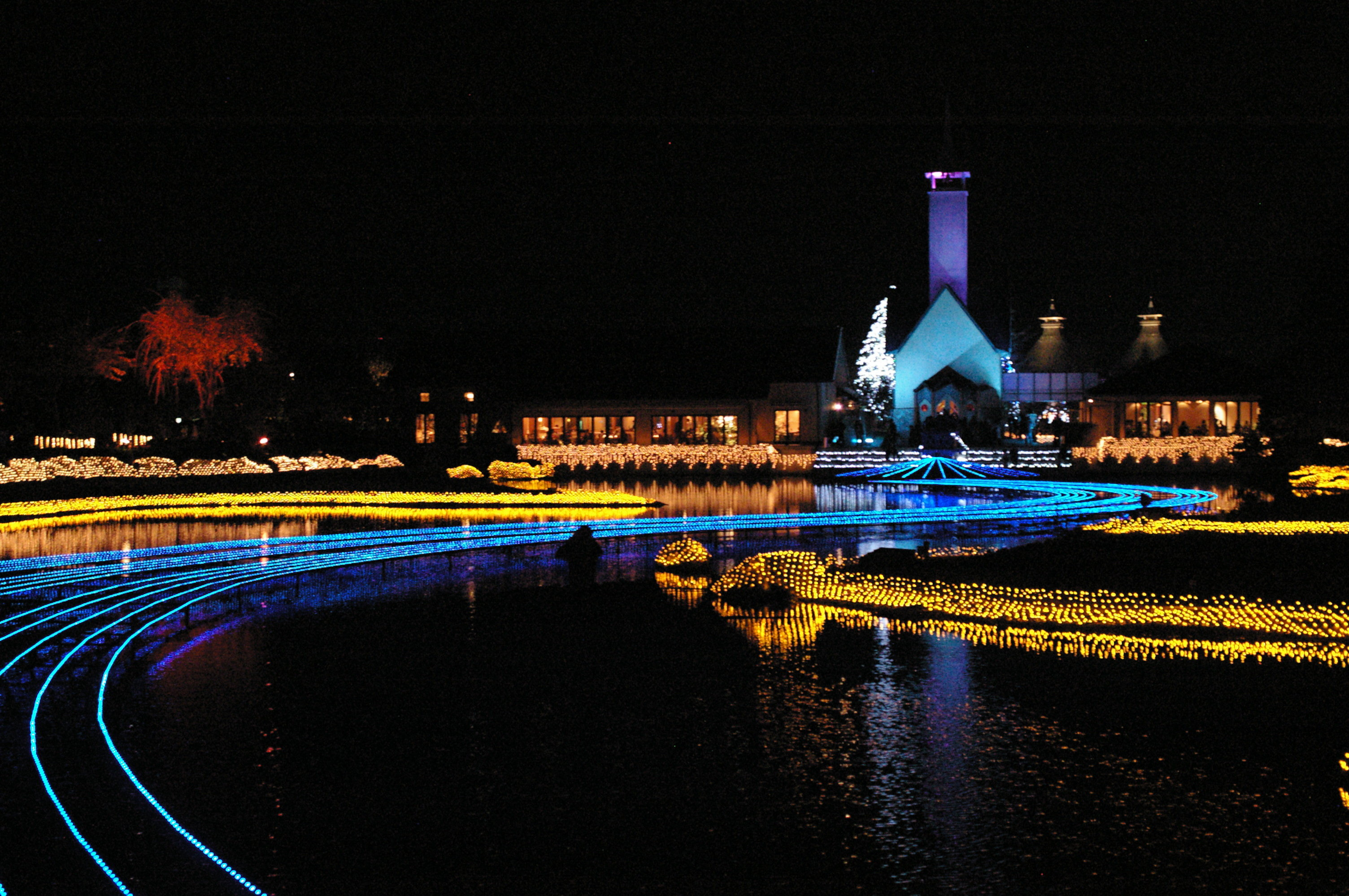 Illuminated chapel of Nabana no Sato theme park during winter illuminations, Island of Nagashima in Kuwana, Mie, Japan.